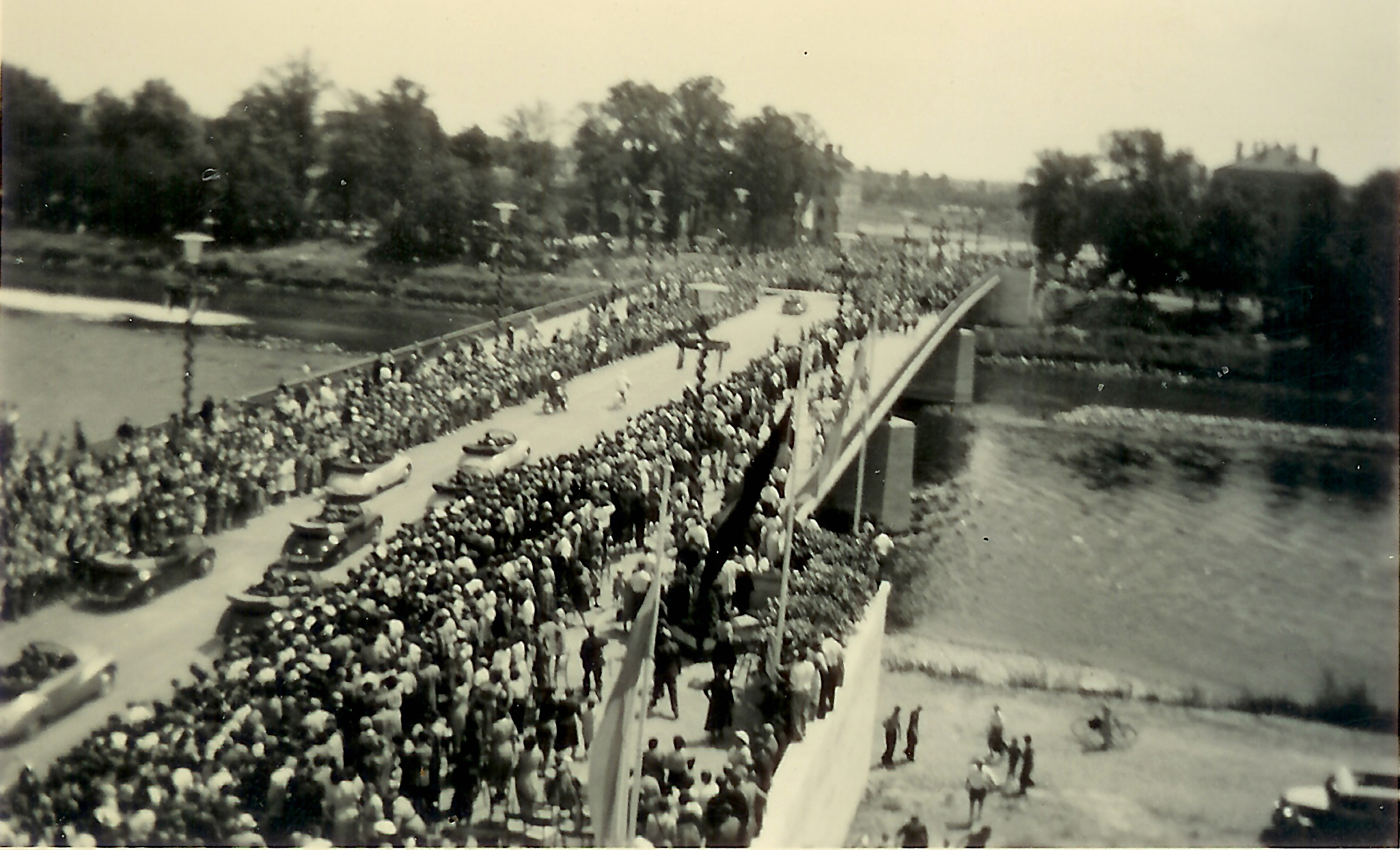 Opening of the first bridge (in massive construction) in Ingolstadt, Bavaria after World War II 14.07.1952